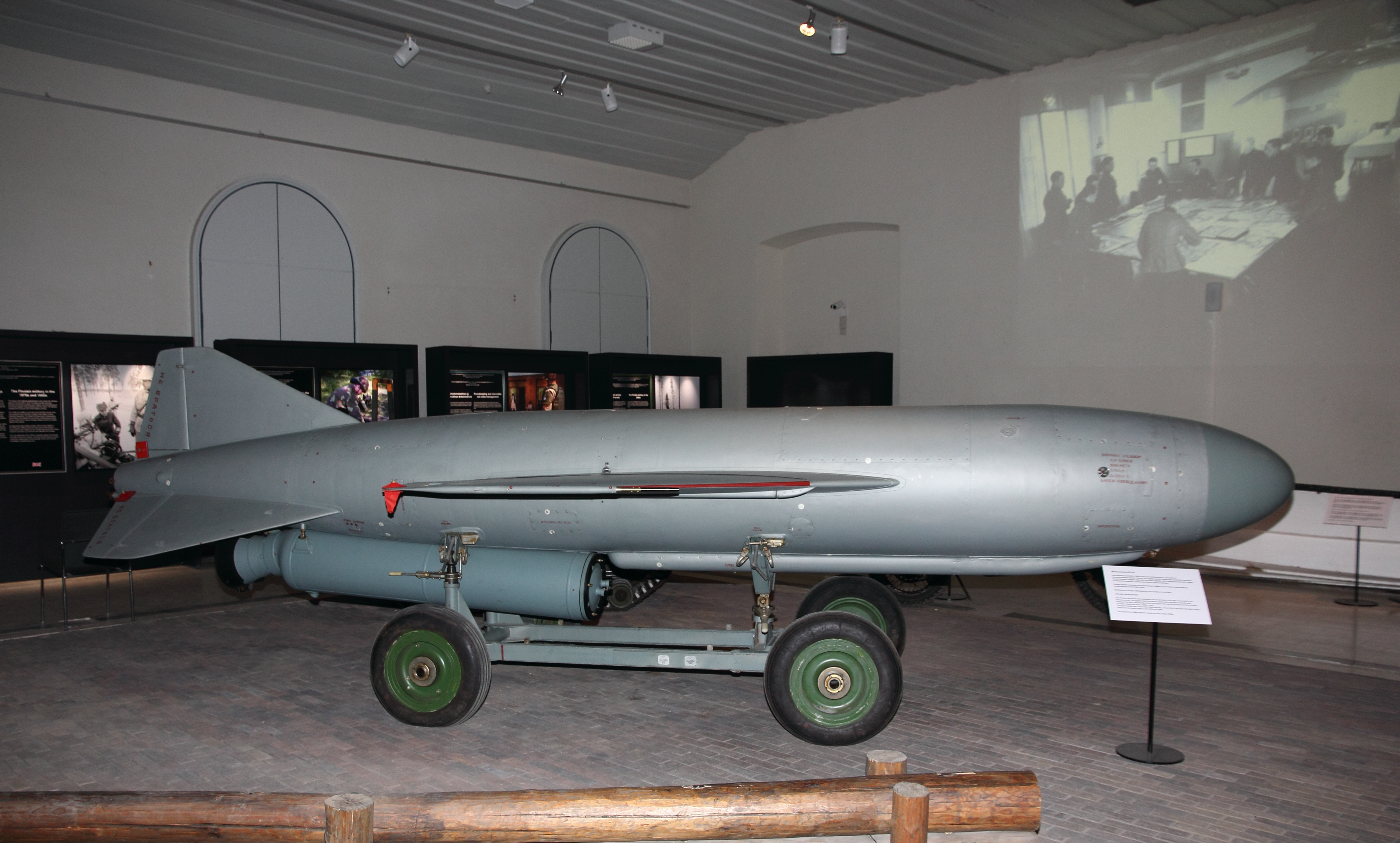 Soviet P-15 Termit (Finnish designation MTO-66) anti-ship missile in Manege military museum.